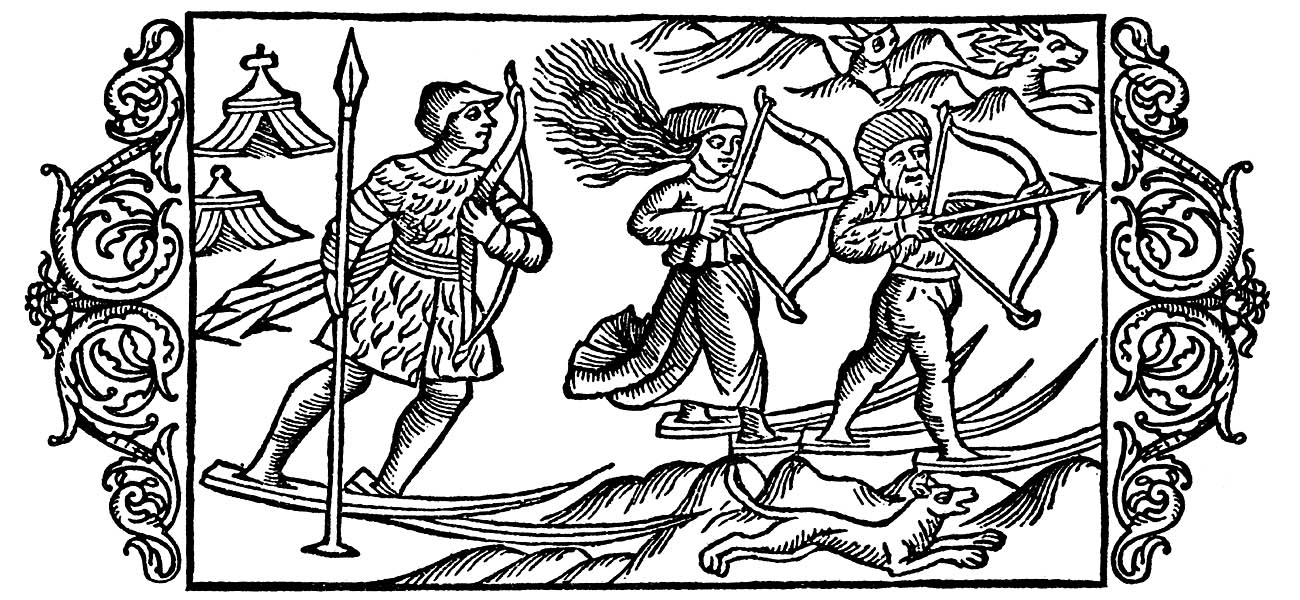 The picture shows three hunters with skis. You can see a sporting dog in the foreground and fleeing reindeers in the background.